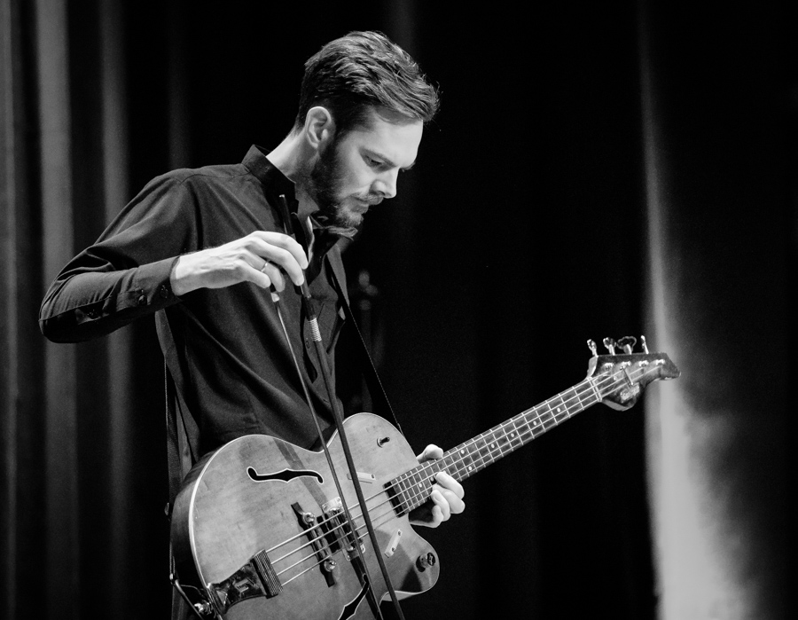 Jo Berger Myhre in a concert with Nils Petter Molvær at Cosmopolite. The concert was part of Kongshaugfestivalen and took place on 17. March 2019 in Oslo. Lineup:Nils Petter Molvær (trumpet)Geir Sundstøl (guitar and lap steel guitar)Jo Berger Myhre (bass guitar)Erland Dahlen (drums and percussion)